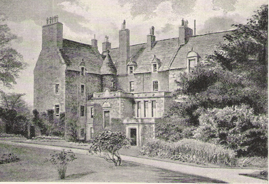 Small plate from an old rare book: The Grange of St. Giles, by J.Stewart-Smith, Edinburgh, 1898. Out of copyright.